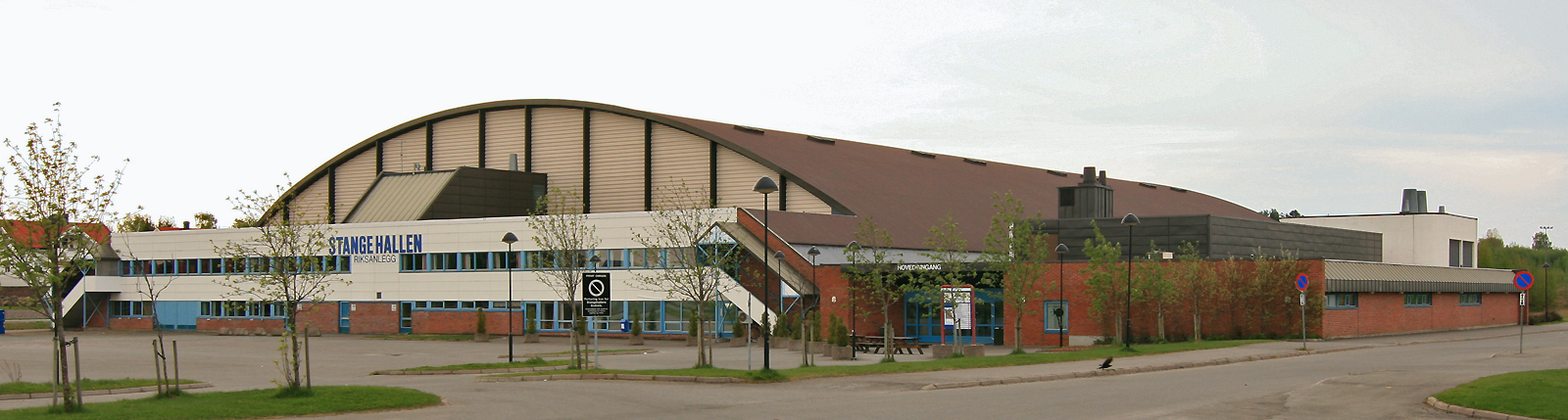 Stange sports centre (Stangehallen), Stange, Norway.